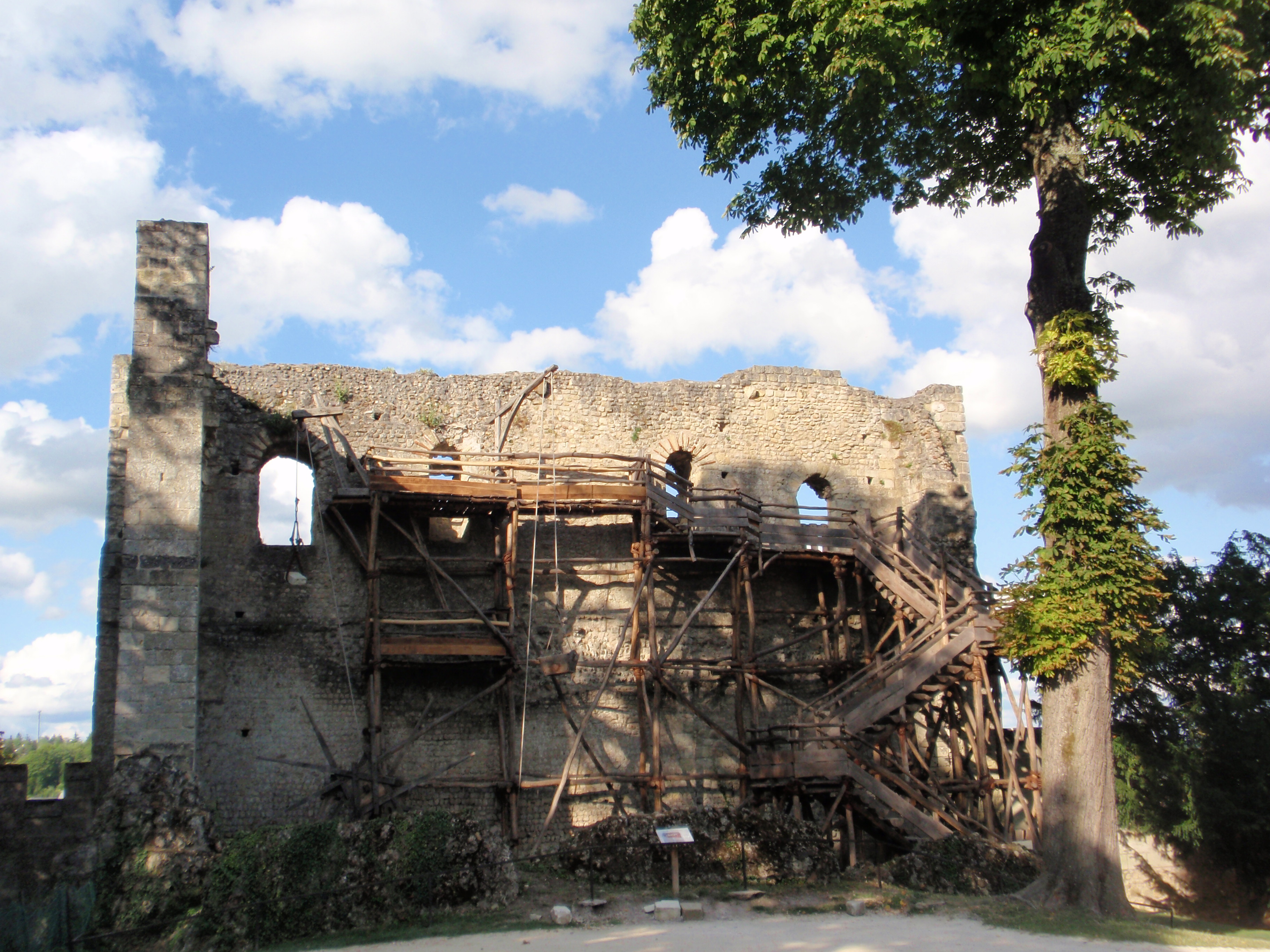 Ruins of the historical donjon in the park of the Château de Langeais in the Loire Valley